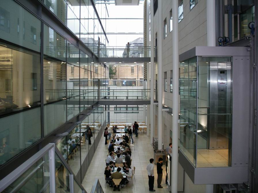 A picture of the atrium in the Chemistry Research Laboratory at the University of Oxford.